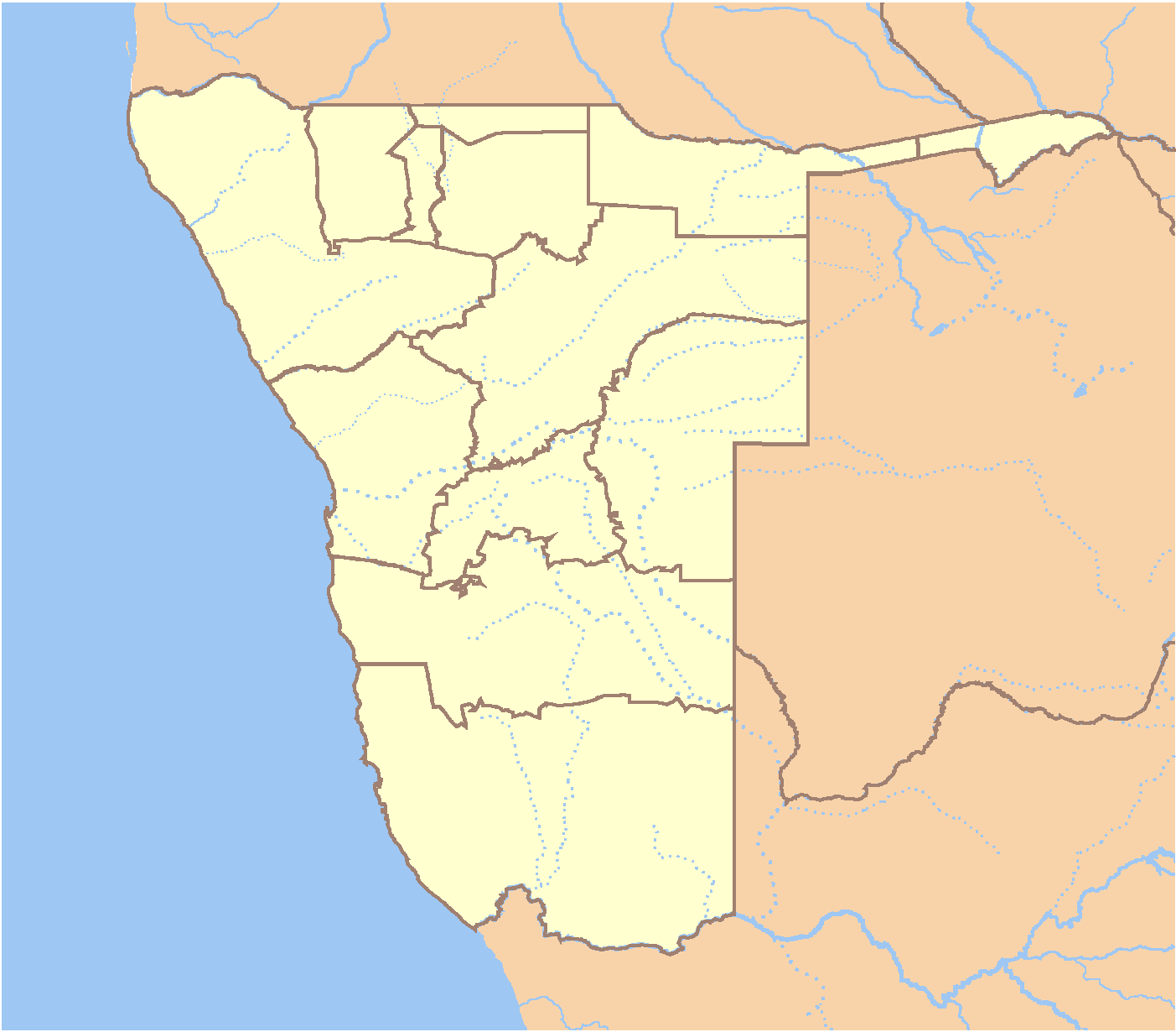 Locator map of Namibia. Left:10, bottom:-30, right:26, top:-16